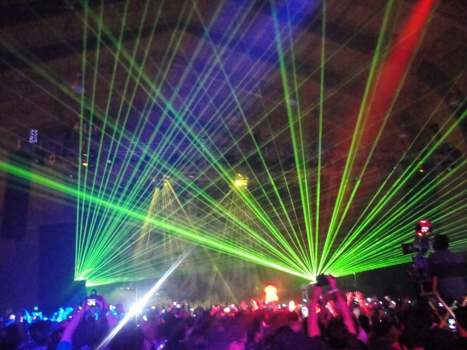 Call of Duty XP 2011 - Kanye West performs